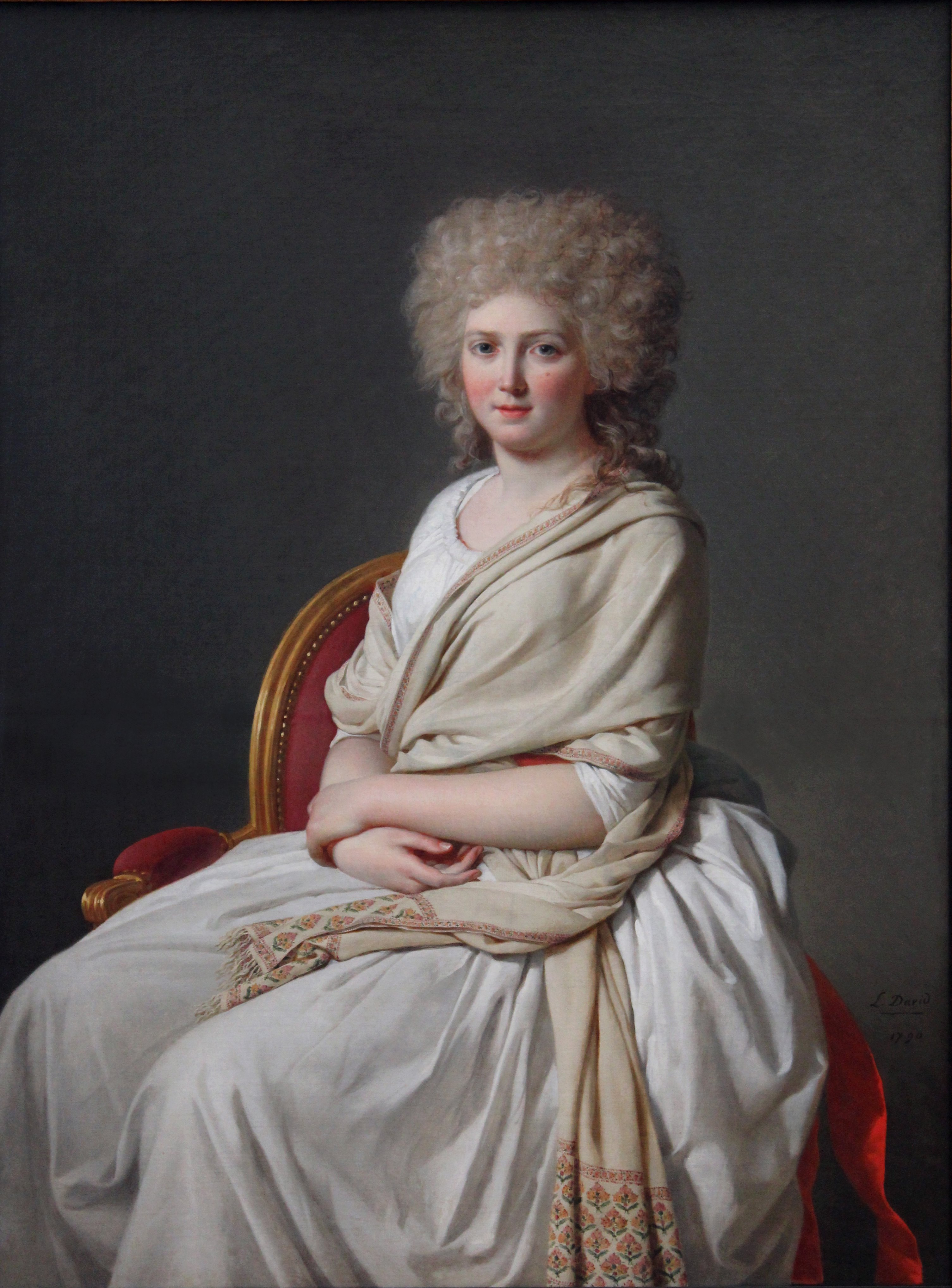 Portrait of one of two sisters of the Genevan banker Jacques Rilliet